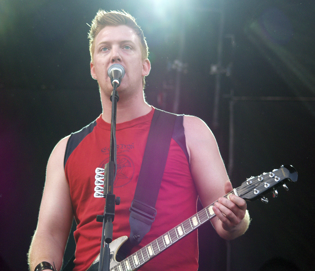 Josh Homme of Queens of the Stone Age, August 17, 2003